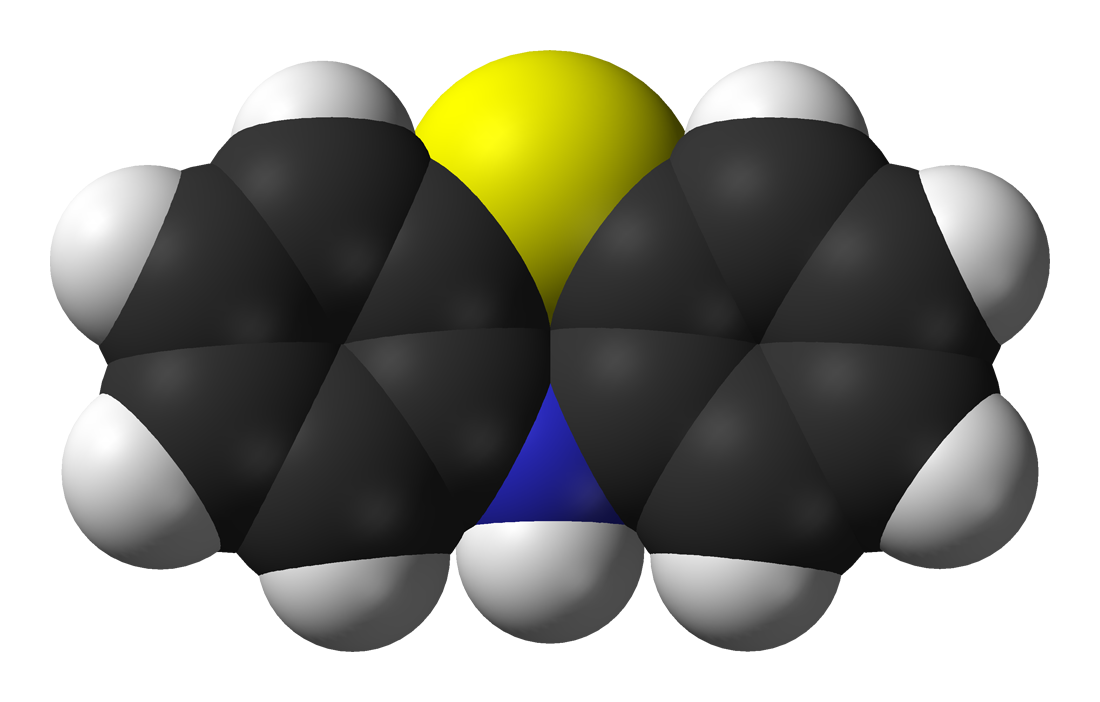 Space-filling model of the phenothiazine molecule. X-ray diffraction data from J. J. H. McDowell (January 1976). "The crystal and molecular structure of phenothiazine". Acta. Cryst. 'B32' (1): 5-10.